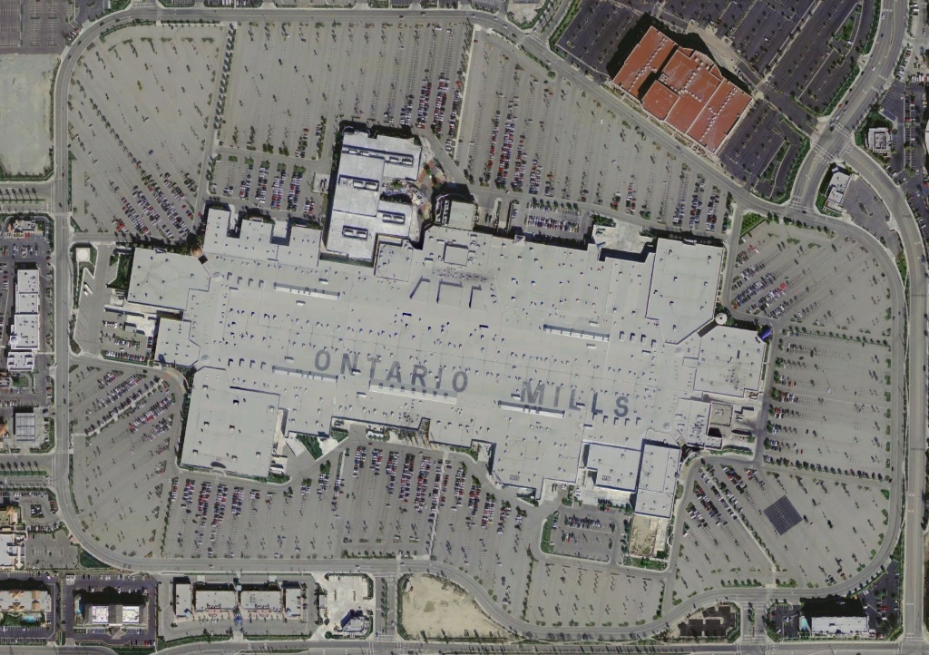 Aerial view of Ontario Mills Mall — in Ontario, San Bernardino County, California.